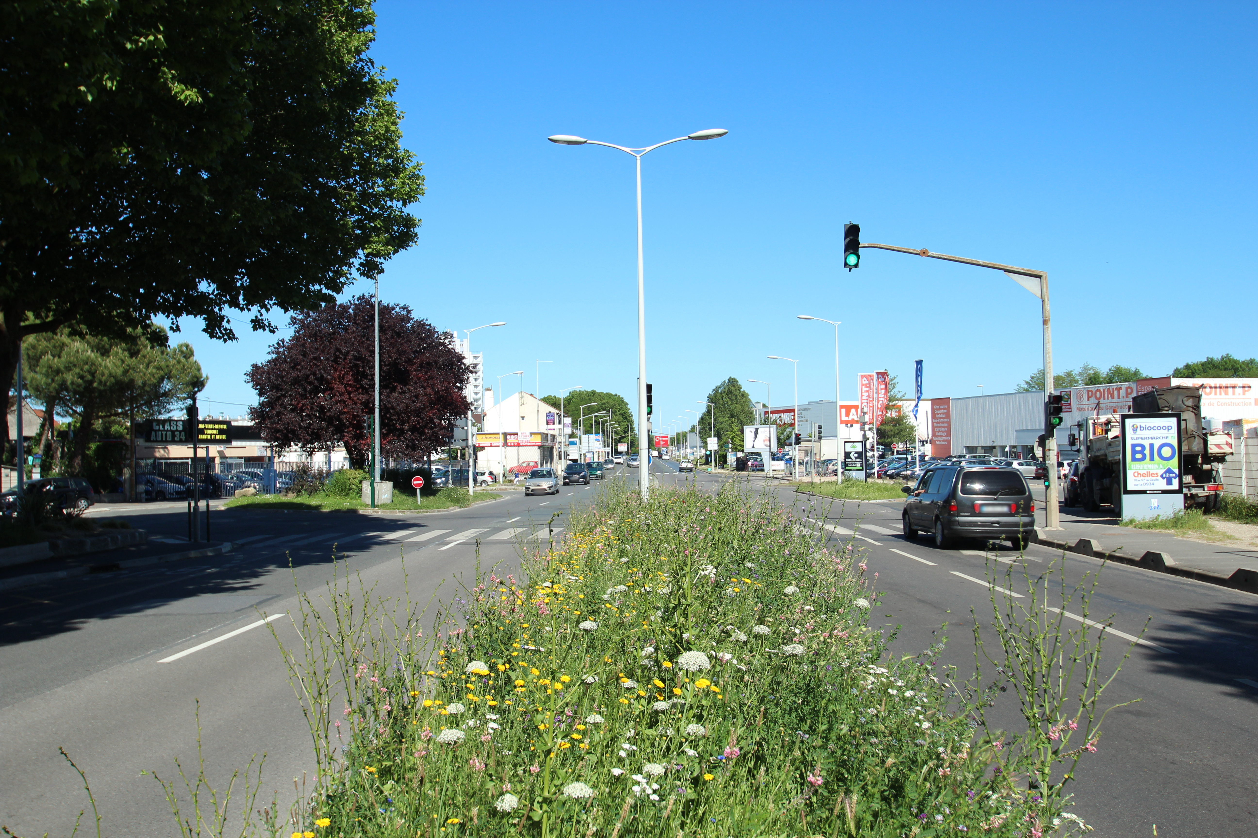 Jean Jaurès avenue in Neuilly-sur-Marne, France. Object location48° 51′ 55.76″ N, 2° 33′ 47.45″ E